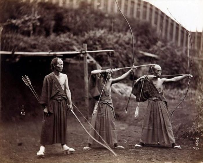 Japanese archers